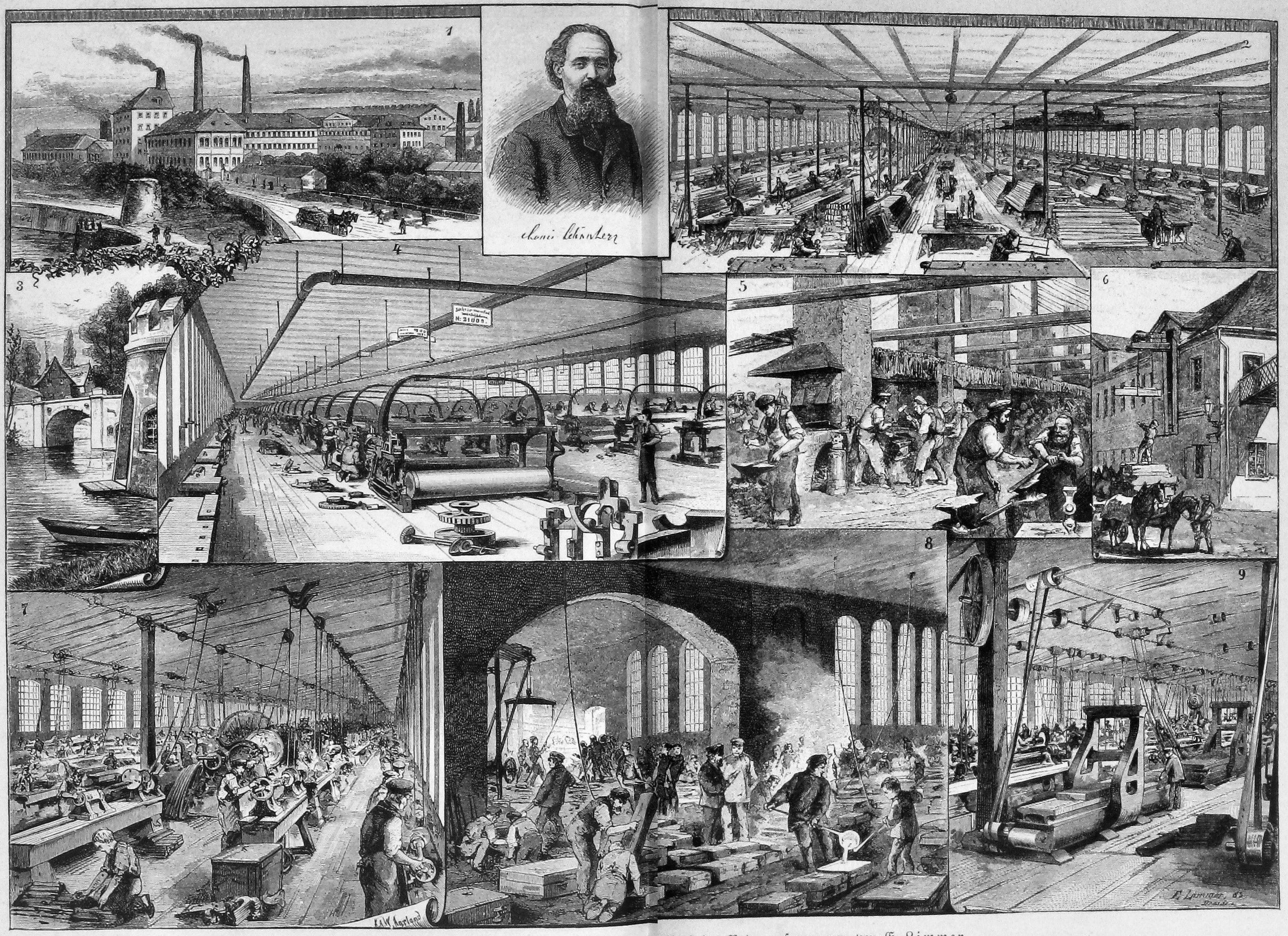 caption: "Die Schönherrsche Webstuhlfabrik in Chemnitz. Nach der Natur aufgenommen von E. Limmer.1. Fabrikanlage. 2. Tischlersaal. 3. Motiv aus dem Parke. 4. Montirsaal. 5. Schmiede. 6. Verladung. 7. Eisendrehereisaal. 8. Eisengießerei. 9. Eisenhobeleisaal."